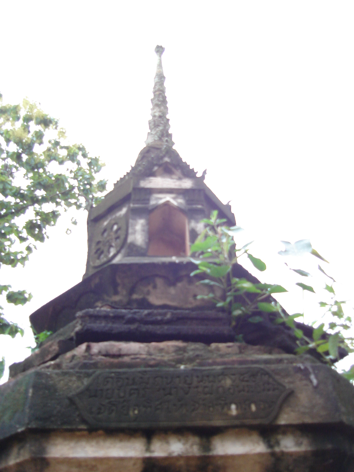 วัดคุ้งตะเภา Thailand, Uttaradit, 2006. Own work